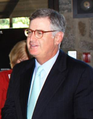 Samuel J. Palmisano speaking with interns at Extreme Blue